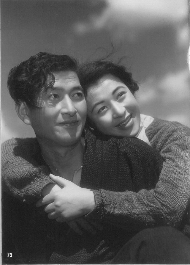 Shūji Sano and Yukiko Shimazaki in Mogura Yokochō (1953)